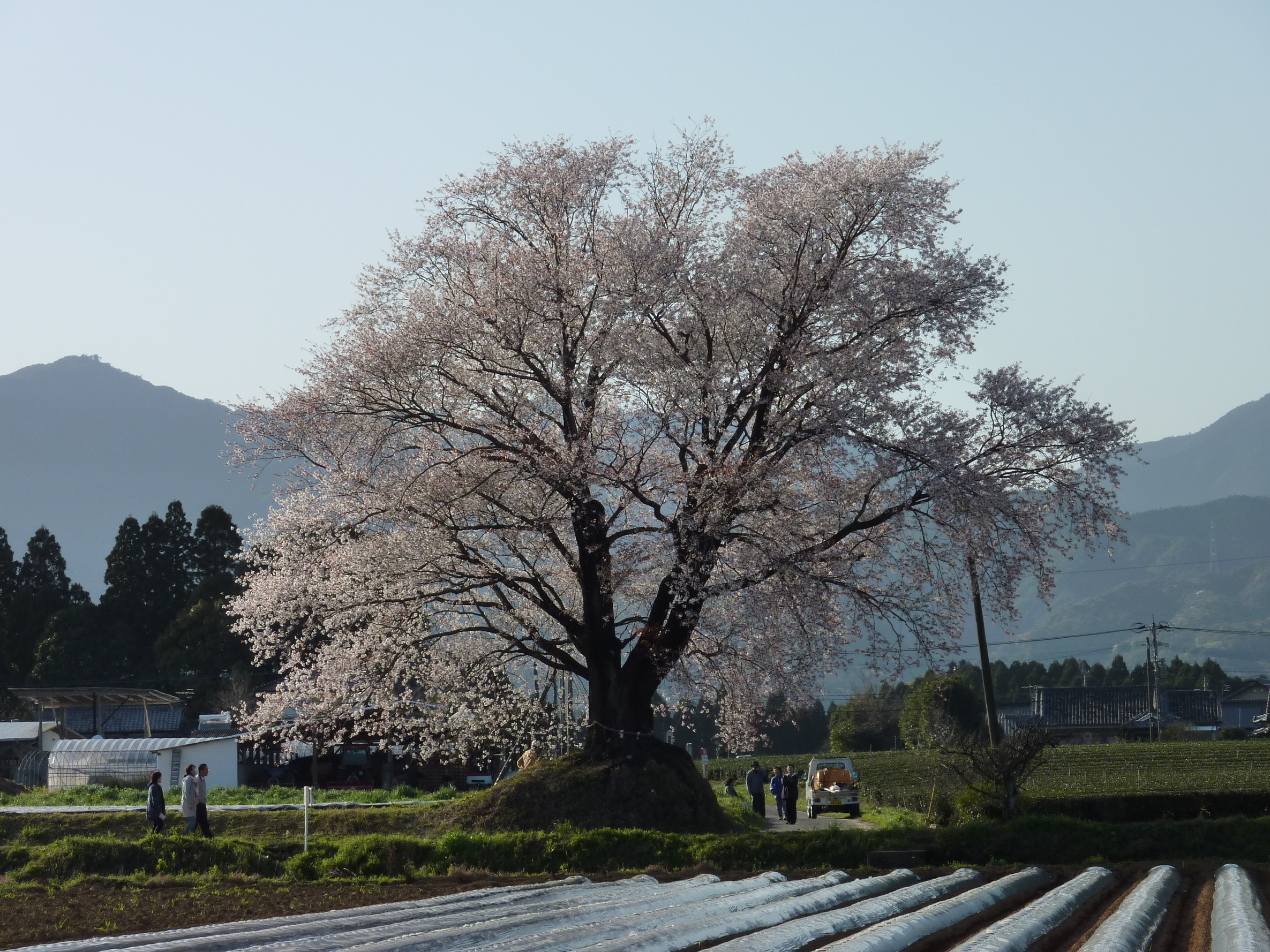 The Cherry blossom in Otsubo (Yatsushiro-Minamimata, Kunitomi Town, Miyazaki, Japan)